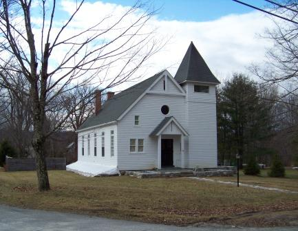 St. Patrick's Church, in Falls Village, Connecticut, a contributing property in NRHP-listed Falls Village District